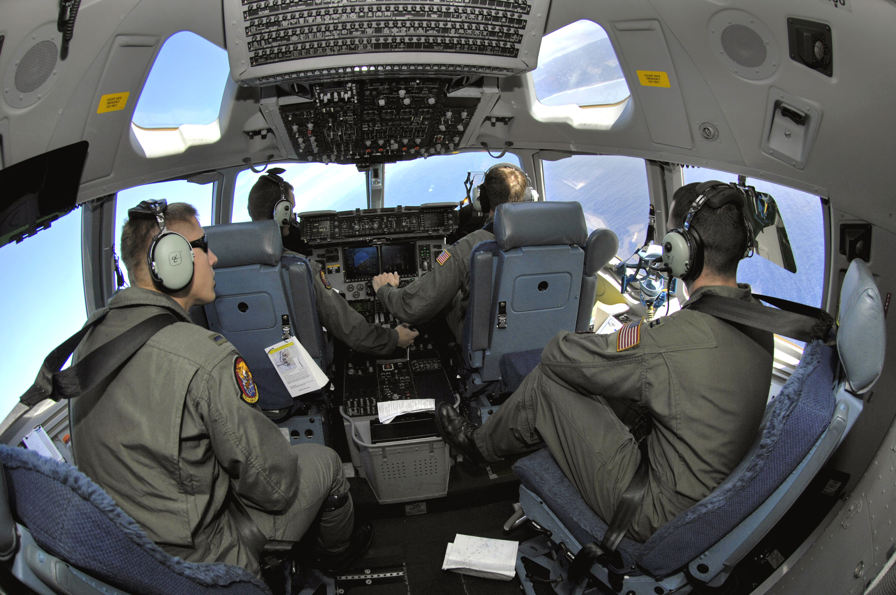 Pilots from the 535th Airlift Squadron from Hickam Air Force Base, Hawaii, fly their C-17 Globemaster III during a local training mission Jan. 19, 2007 over the Hawaiian Islands. In February 2006, Hickam AFB received its first C-17.